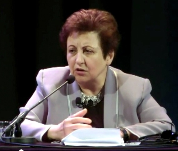 Shirin Ebadi during a lecture - organized by University of Amsterdam - on 7 Nov. 2011. Photo: Persian Dutch Network